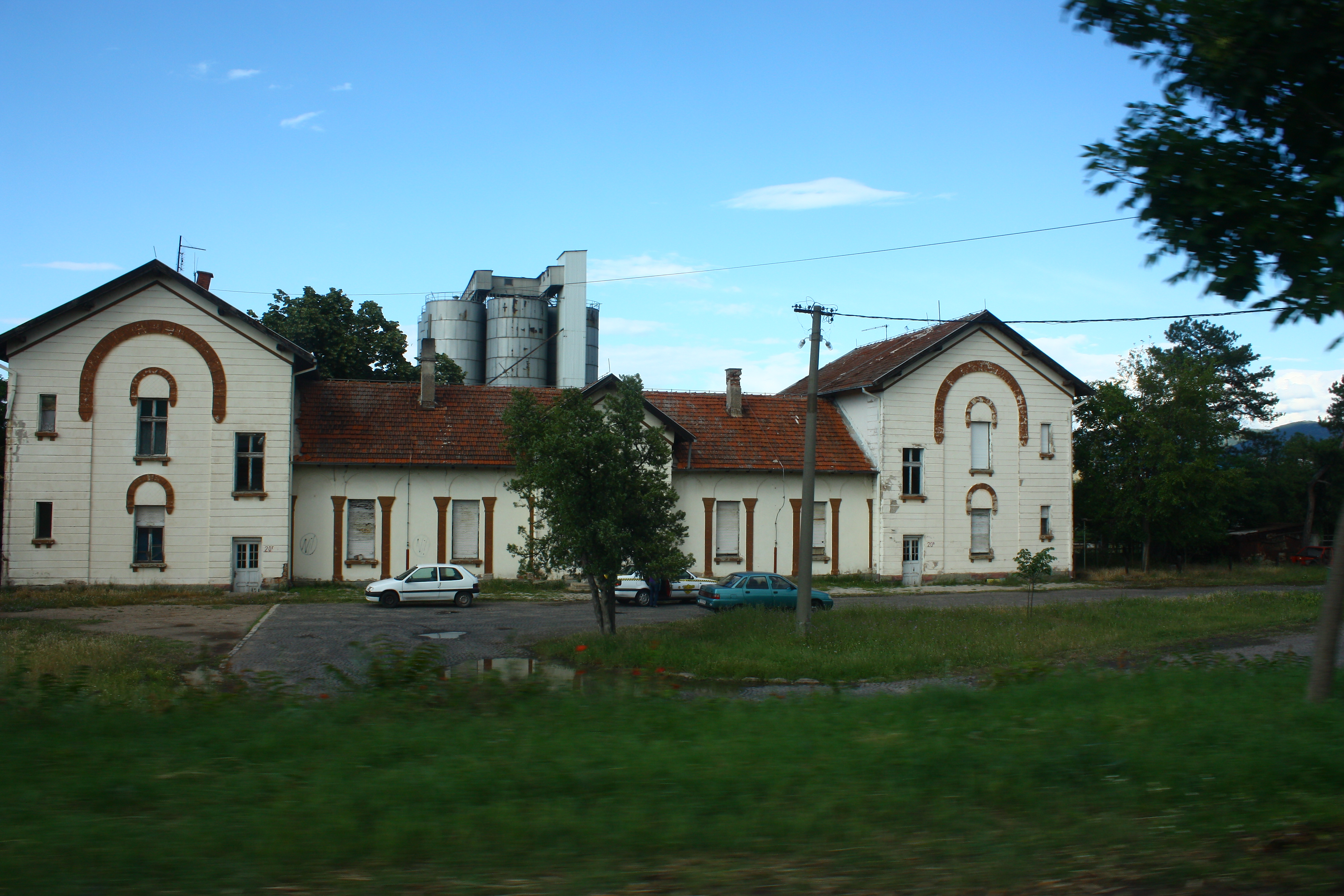 This image is uploaded as part of the picture contest Wiki Loves Cultural Heritage in Macedonia 2013. English | македонски | +/− Štip train station, Macedonia